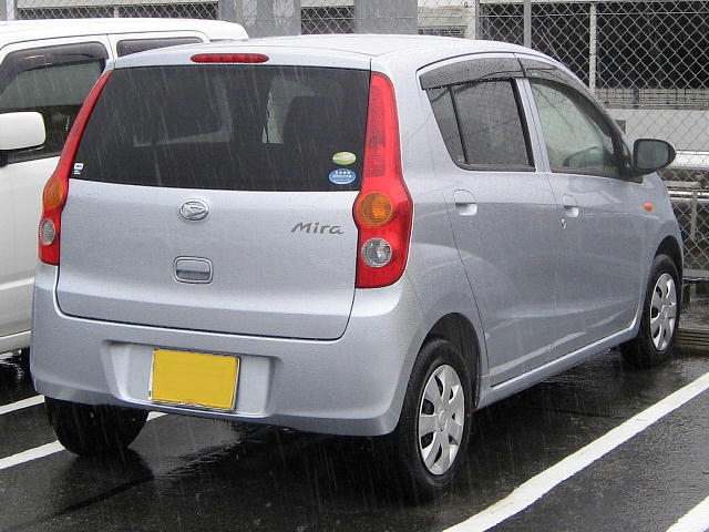 Daihatsu "Mira" (7th generation) 2006/12